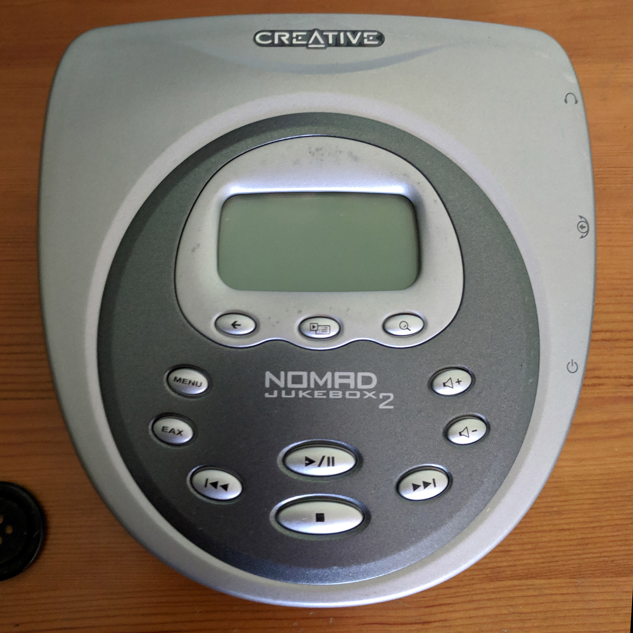 A Creative NOMAD Jukebox 2 MP3 player